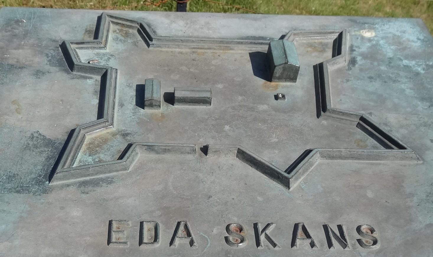 Eda sconce as shown on plaque at the site of the sconce in Eda municiplaity, Värmland, Sweden.